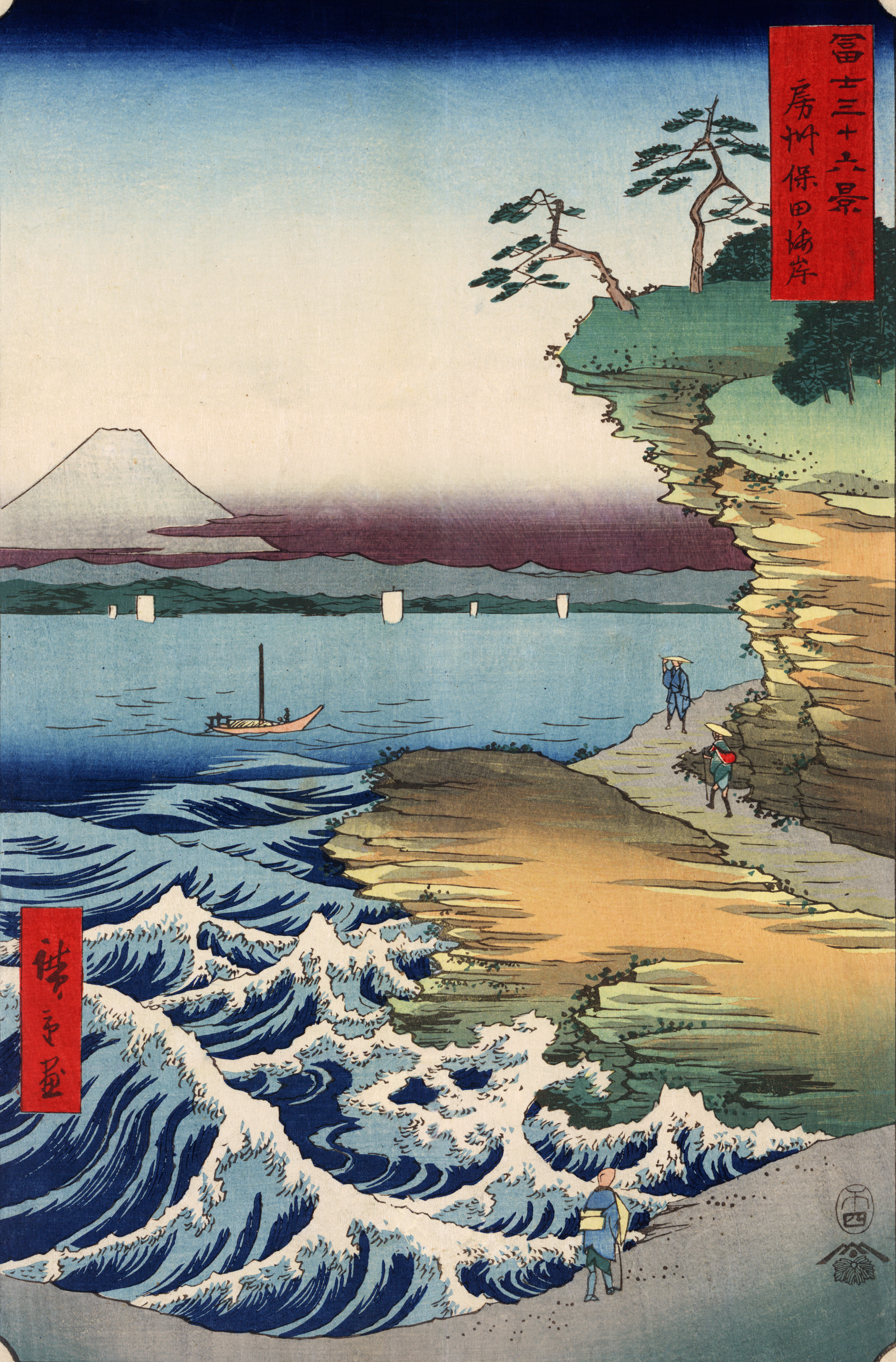 Boushū hota no kaigan (The coast at Hota in [Boshu,] Awa province). Ukiyo-e print shows travelers walking along the coastline at Hota, with a view of Mount Fuji in the background. Color woodcut by Andō Hiroshige. No. 36 in the series Fuji sanjūrokkei (36 views of Mount Fuji), 1858. From the Japanese Fine Prints Collection at the Library of Congress More Hiroshige woodcuts | More Japanese fine prints [PD] This picture is in the public domain.